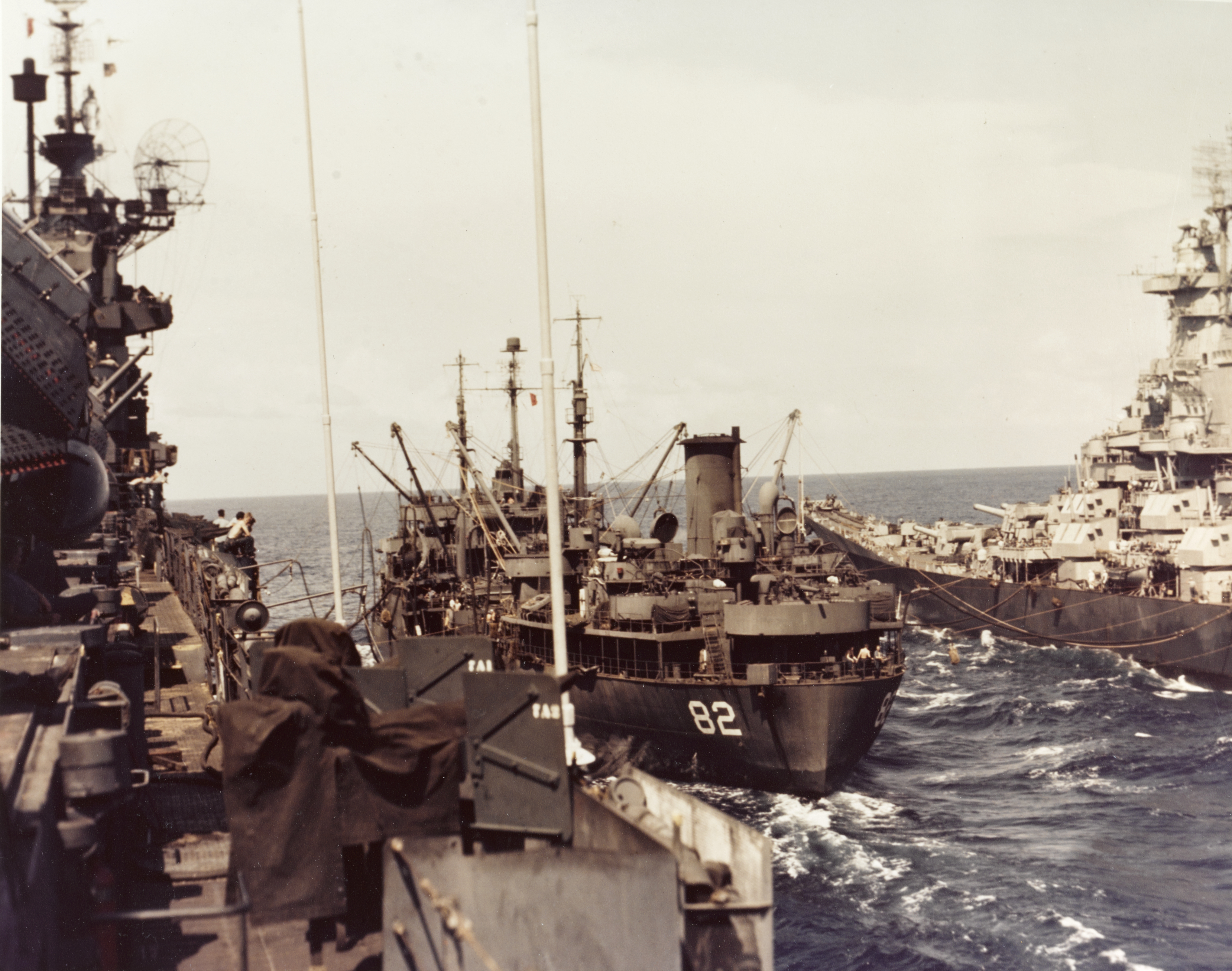 The U.S. Navy flee oiler USS Cahaba (AO-82) refueling the battleship USS Iowa (BB-61) and aircraft carrier USS Shangri-La (CV-38) in 1945.